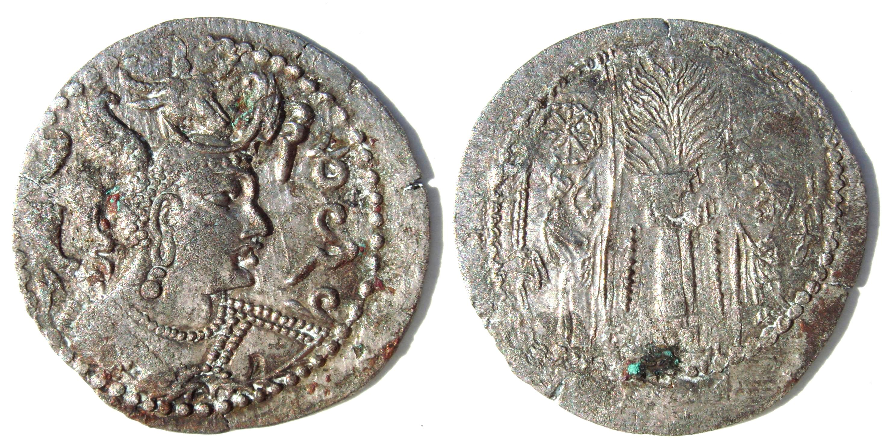 Billon drachm of the Hephthalite King Napki Malka (c. 475-576). Obv: Napki Malka type bust with winged headdress. Pahlavi legend "NAPKI MALKA". Rev: Zoroastrian fire altar with attendants either side. Sun wheel, or eight-spoked Buddhist Dharmacakra above left. Actual size: 27 mm, 3.3 g. Findplace: Afghanistan/ Gandhara.